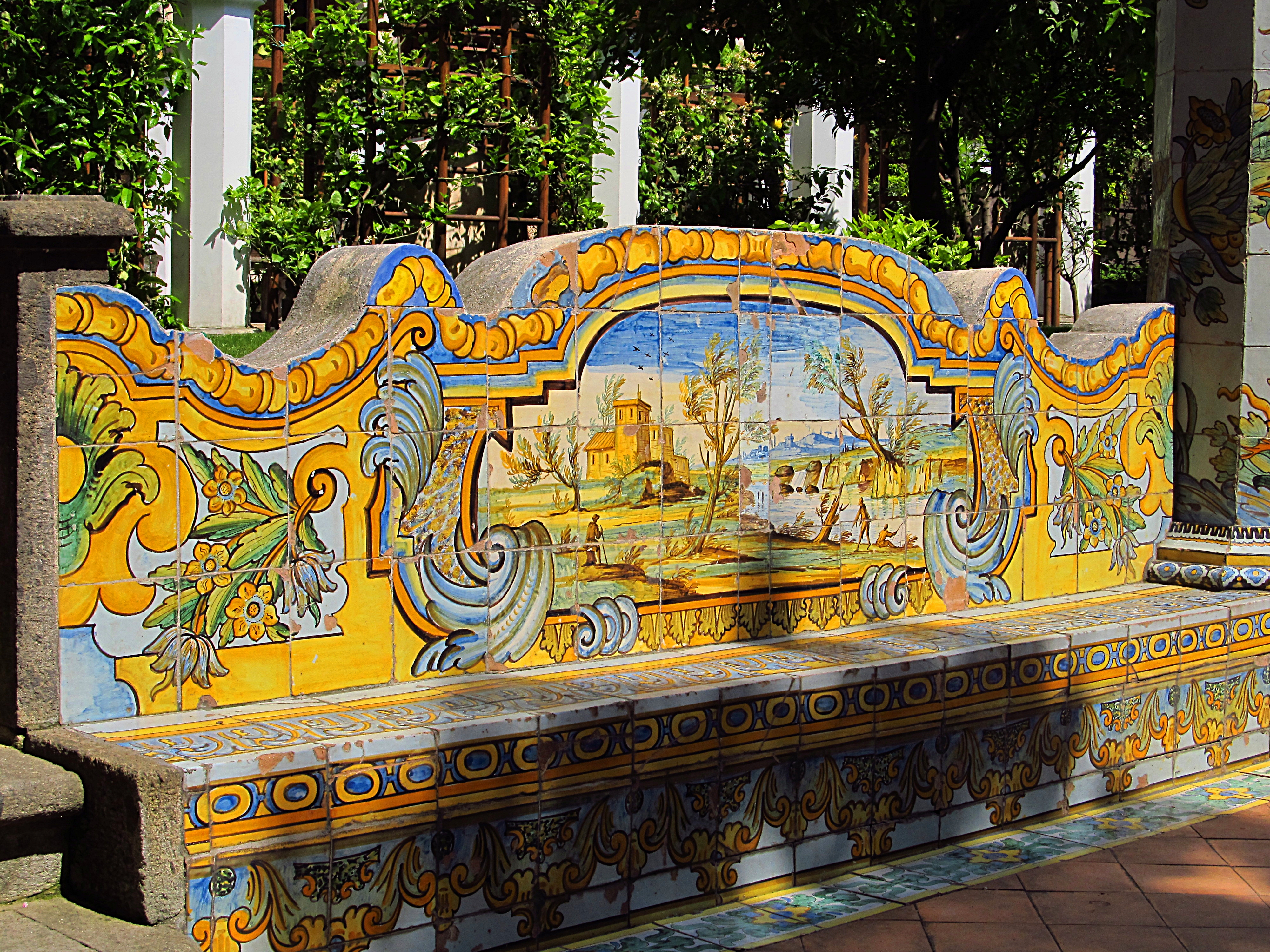 The cloister is really beautiful